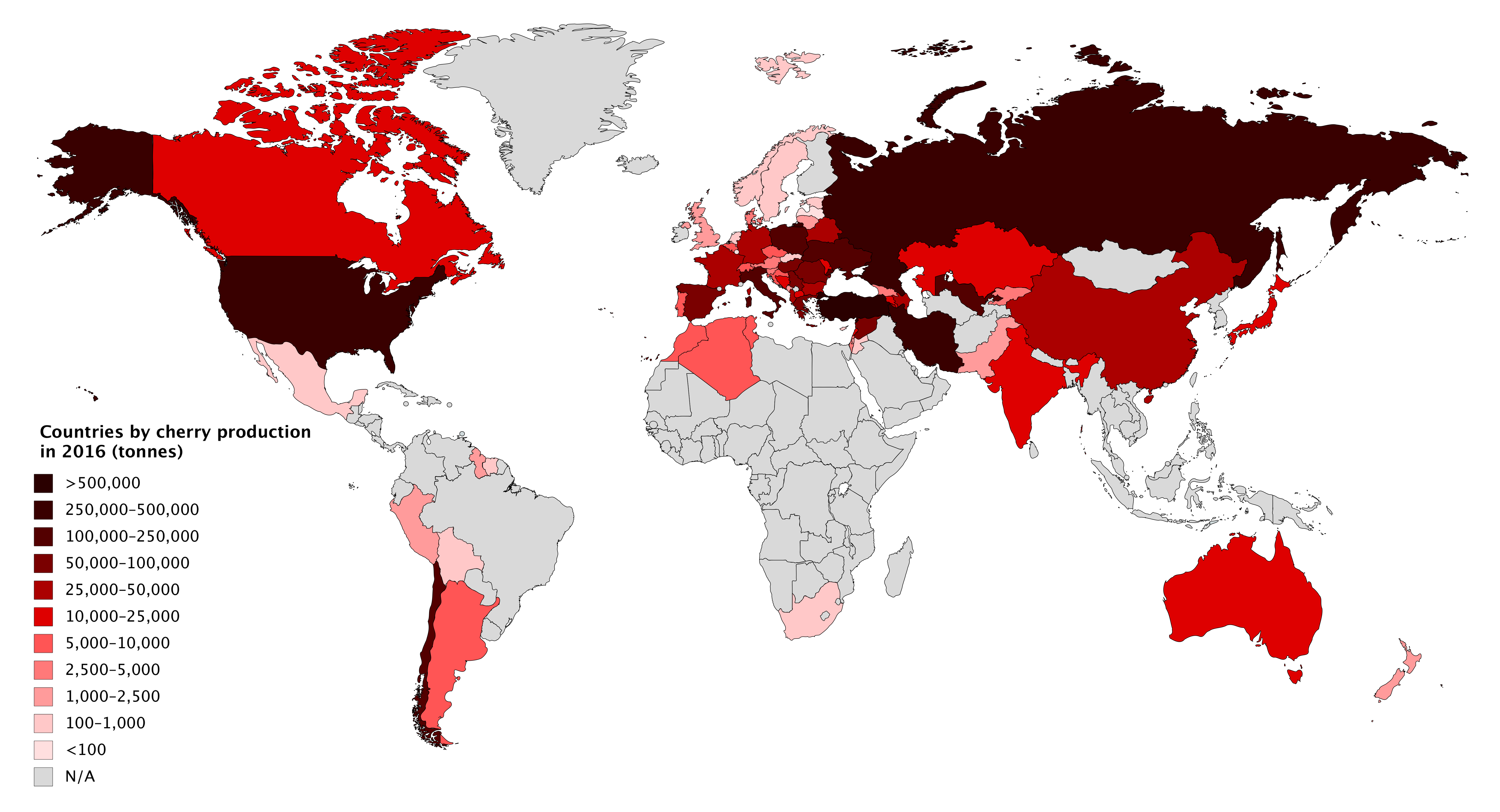 A choropleth map showing countries by cherry production in tonnes, based on 2016 data from the Food and Agriculture Organization Corporate Statistical Database (FAOSTAT).